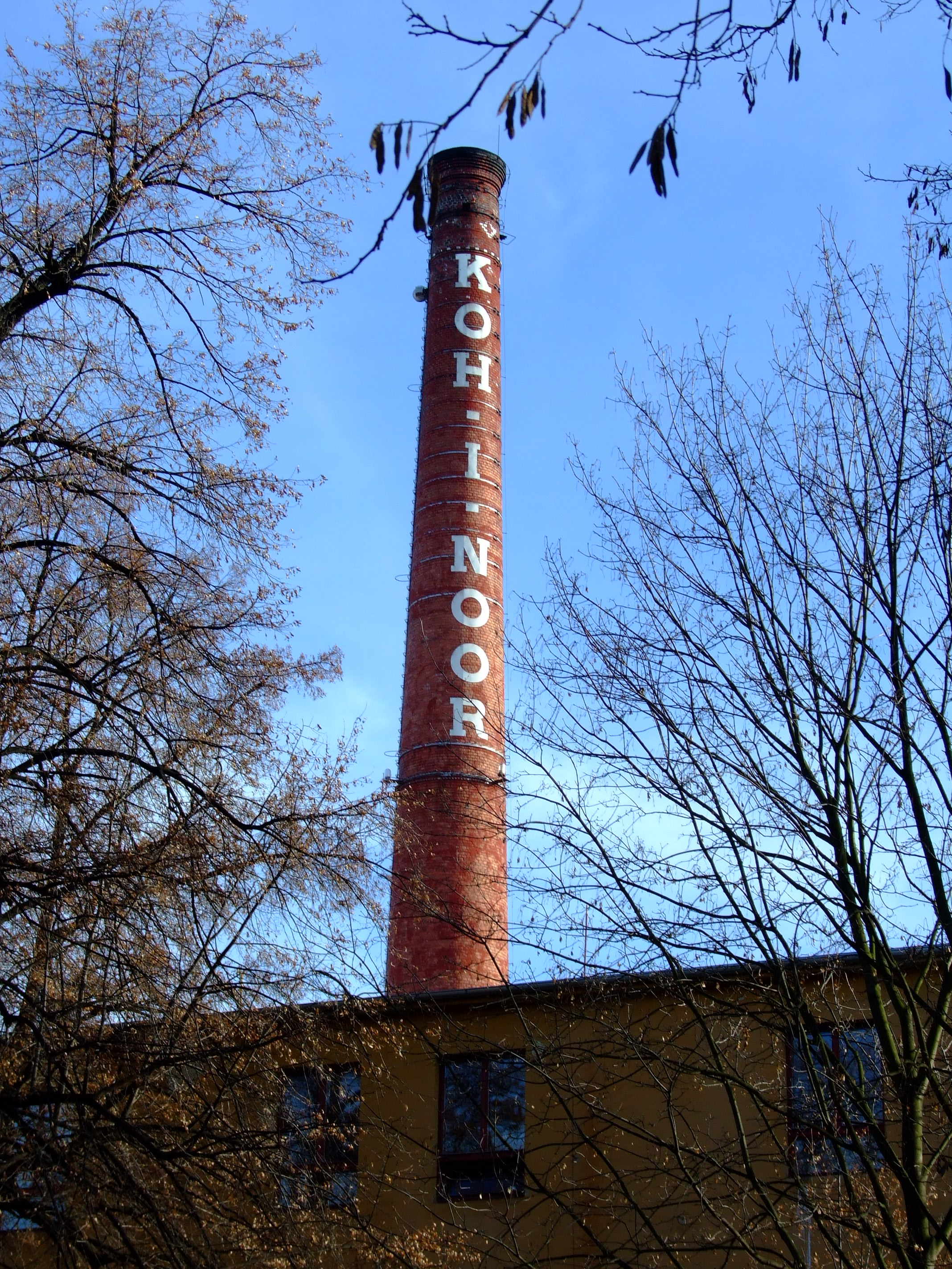 Koh-I Noor factory chimney, České Budějovice, Czech Republic